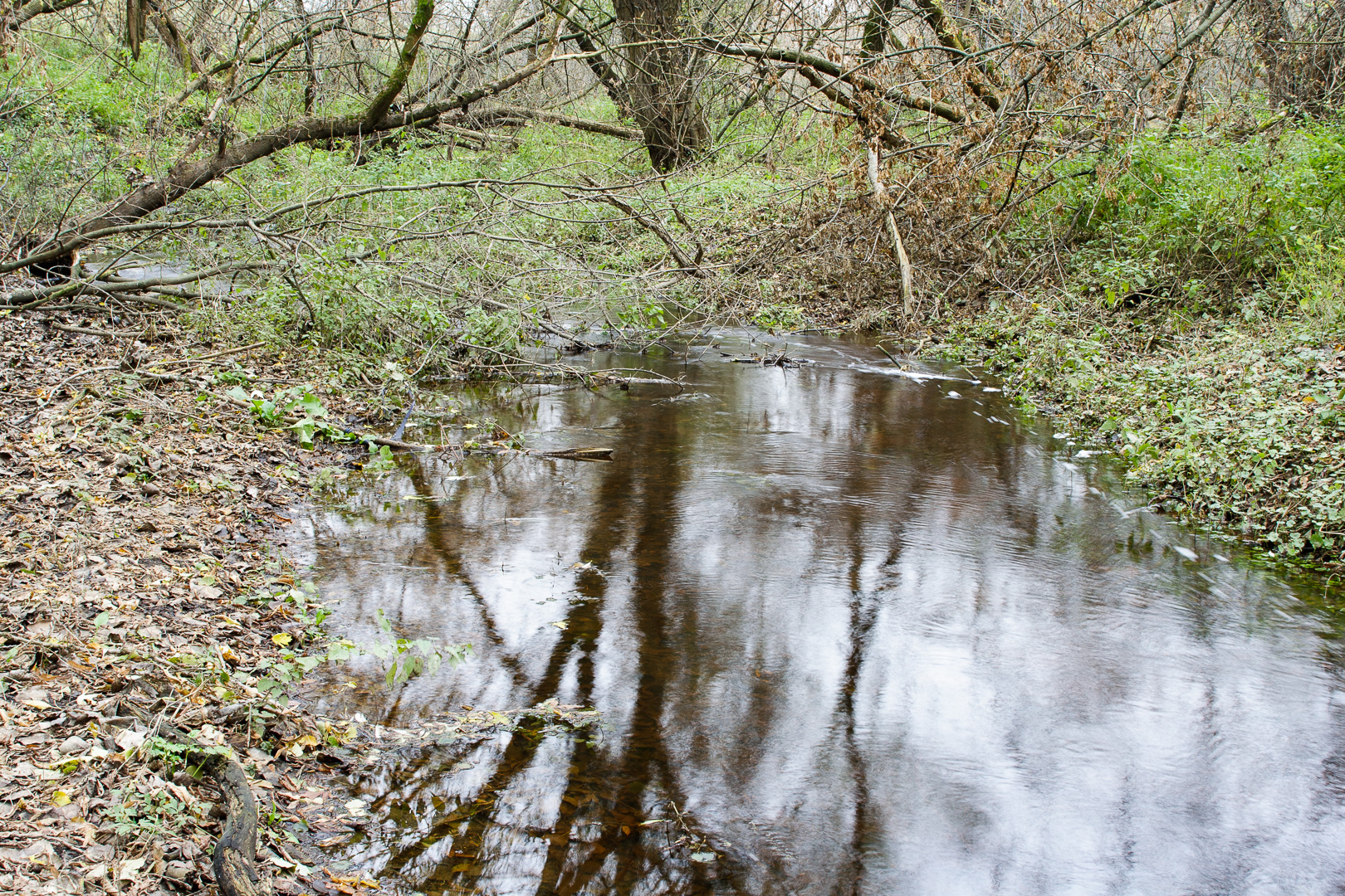 Stara Wisła (Old Vistula) near its estuary, Kępa Wieloryb on the right. Las, Wawer, Warsaw, Poland. This is a photography of Natura 2000 protected area with ID PLB140004